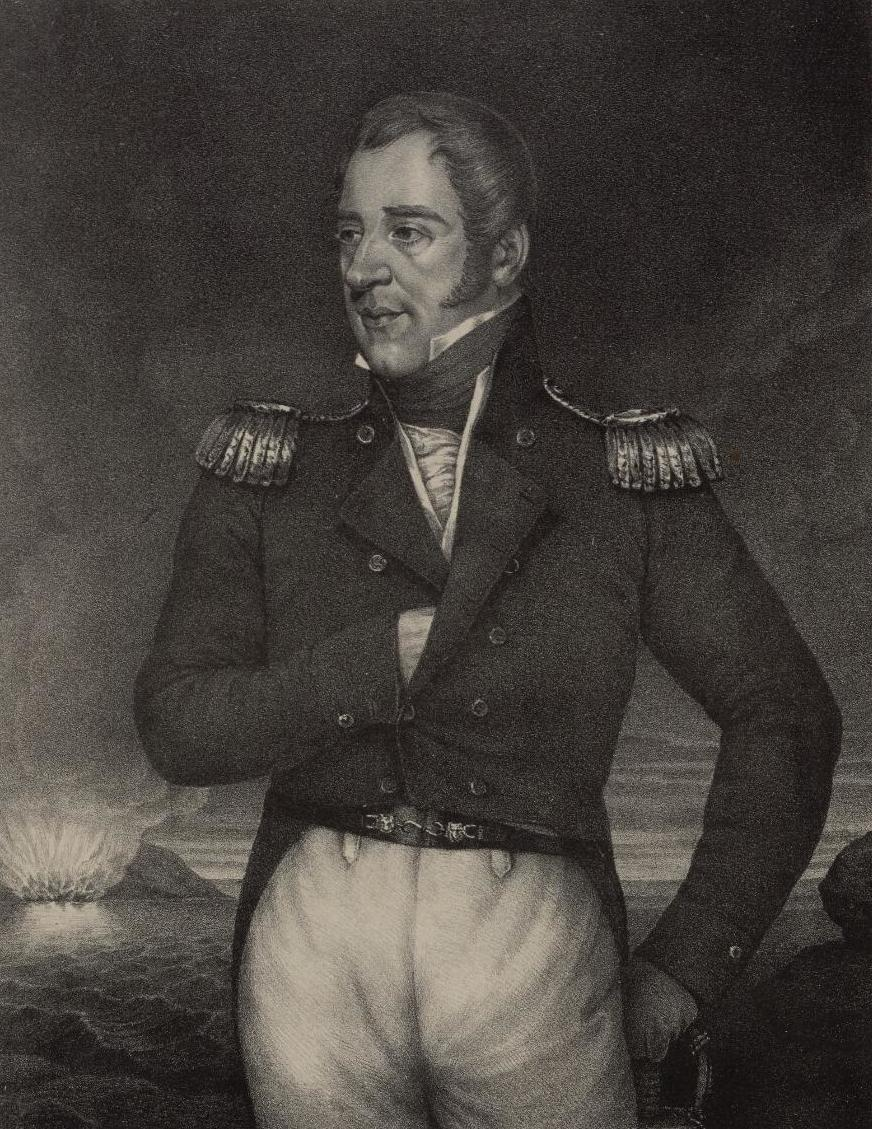 A portrait from the Welsh Portrait Collection at the National Library of Wales. Depicted person: Thomas Cochrane, 10th Earl of Dundonald – Royal Navy admiral